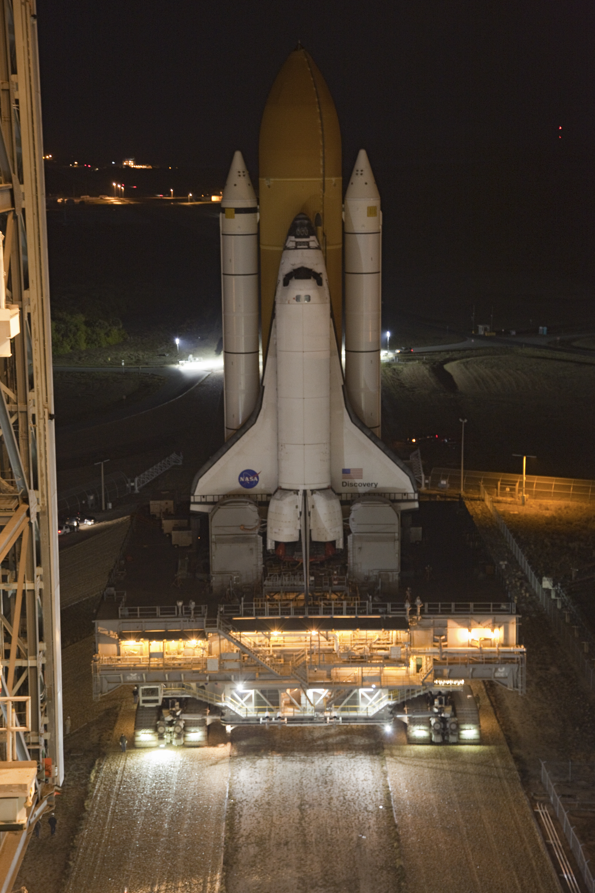 CAPE CANAVERAL, Fla. – Space shuttle Discovery begins to enter the Vehicle Assembly Building at NASA's Kennedy Space Center in Florida. The 3.4-mile trek, called rollback, from Launch Pad 39A began at 10:48 p.m. yesterday and took about eight hours. Next, Discovery's external fuel tank will be examined and foam reapplied where 89 sensors were installed on the tank's aluminum skin for an instrumented tanking test on Dec. 17. The sensors were used to measure changes in the tank as super-cold propellants were pumped in and drained out. Data and analysis from the test will be used to determine what caused the tops of two, 21-foot-long support beams, called stringers, on the outside of the intertank to crack during fueling on Nov. 5. Discovery's next launch opportunity to the International Space Station on the STS-133 mission is no earlier than Feb. 3, 2011. For more information on STS-133, visit